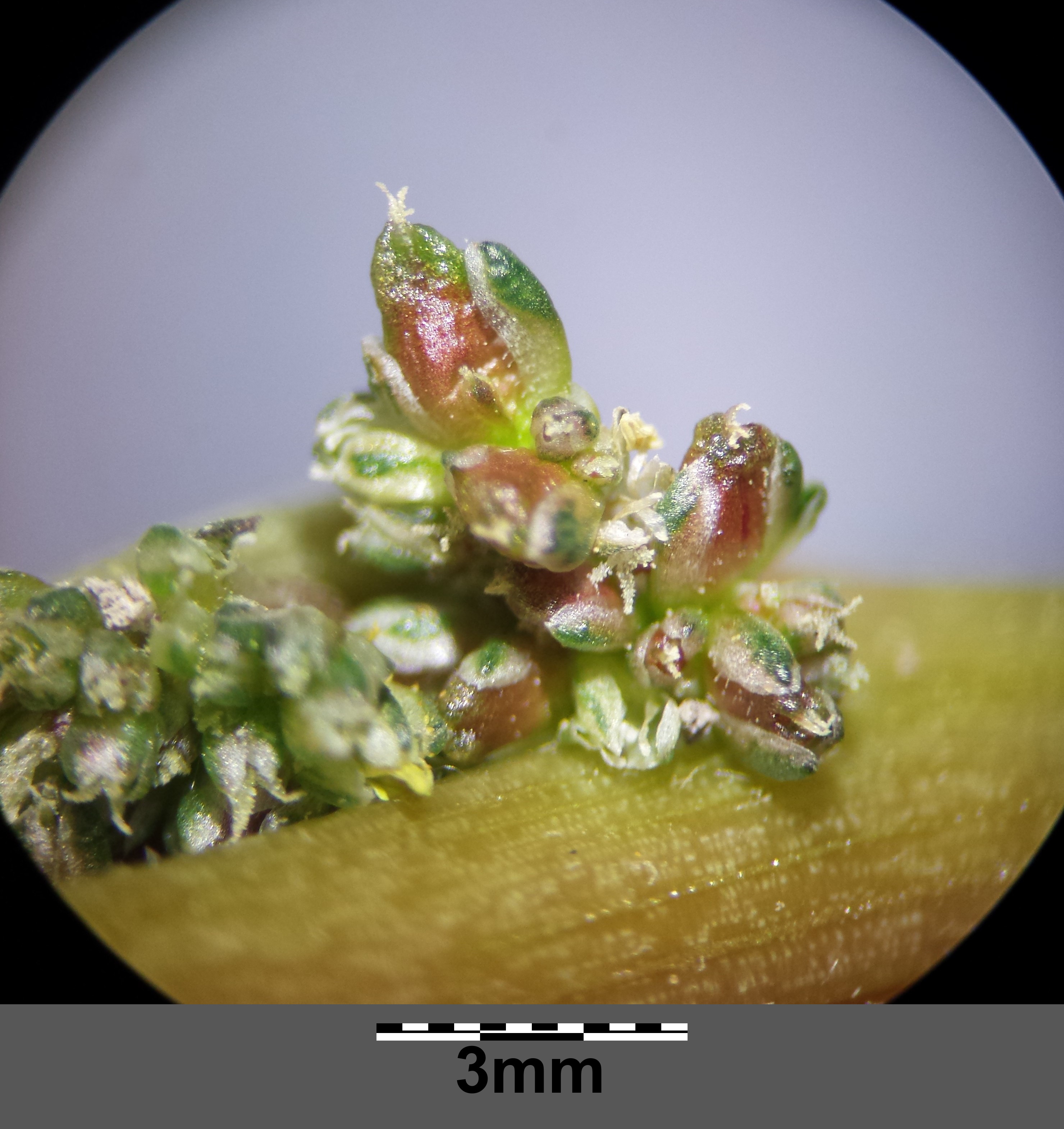 Infructescence (detail) Taxonym: Amaranthus blitum subsp. blitum ss Fischer et al. EfÖLS 2008 ISBN 978-3-85474-187-9 Location: Haidschüttgasse, Vienna-Floridsdorf - ca. 160 m a.s.l. Habitat: ruderal area